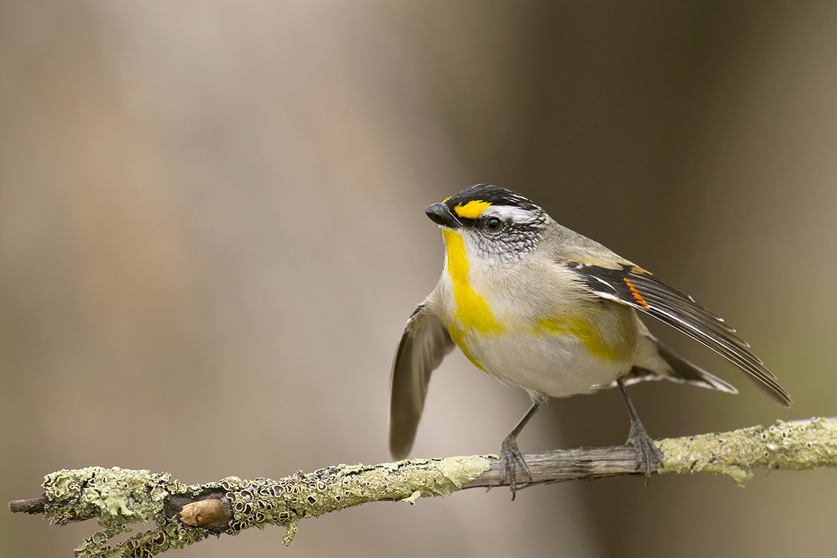 Strangways, Vic. A series of shots taken during a vigorous contest over which pair of these birds gets to use which of 3 nest boxes at our place.